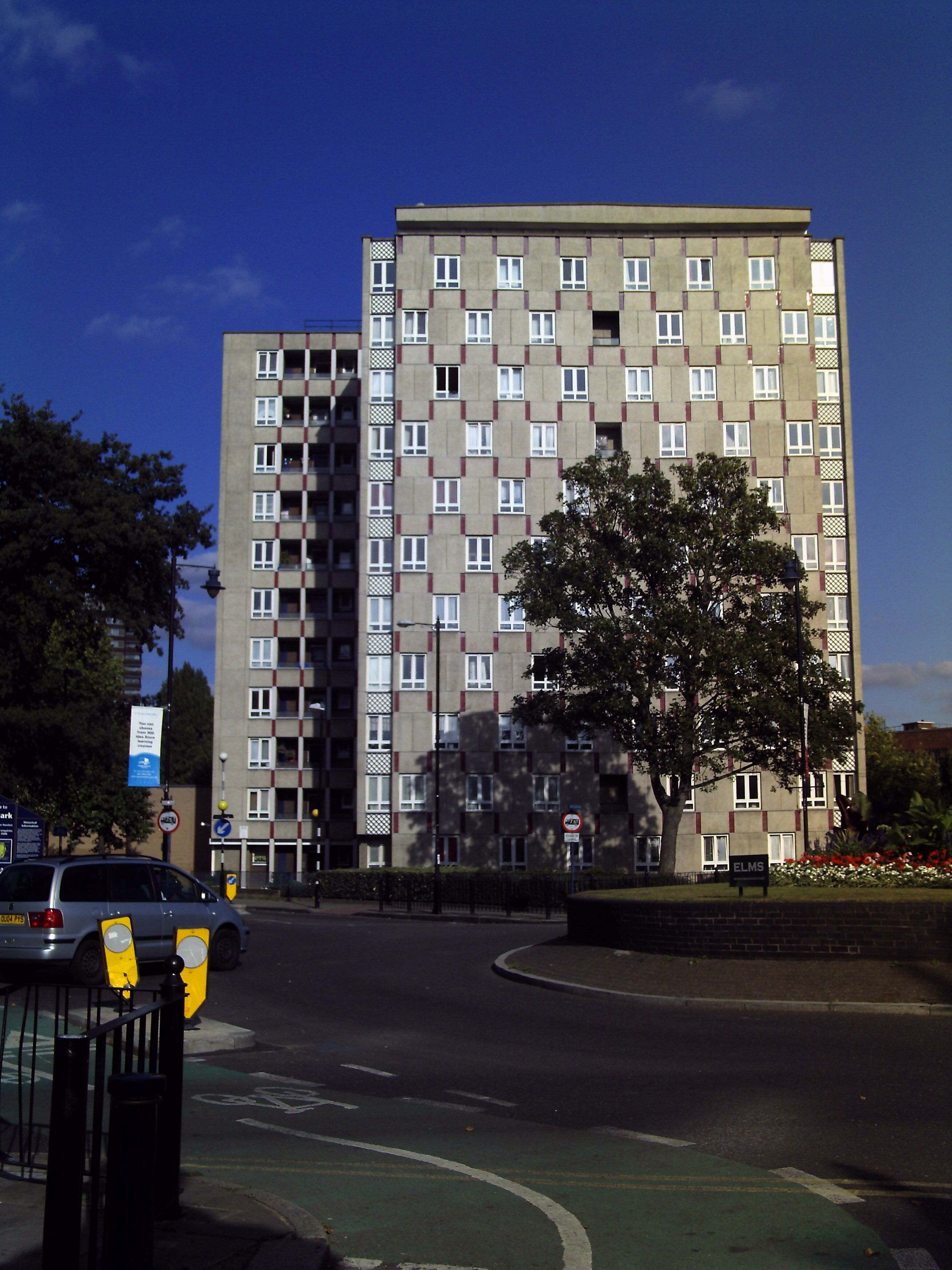 A view of Lakeview Estate, Bethnal Green, Tower Hamlets, London.